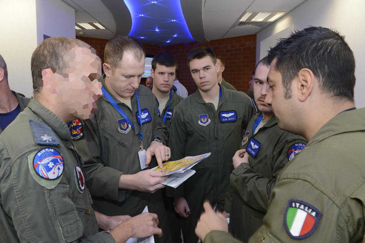 Blue Flag 2013: military alliance soars to the sky